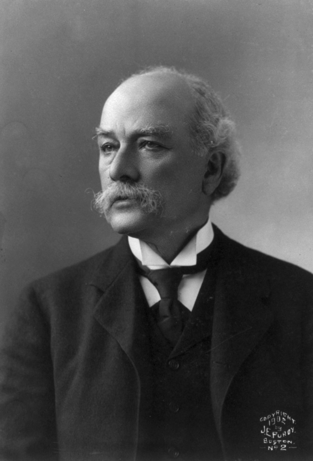 Portrait of Ethan A. Hitchcock, Head and shoulders, facing left